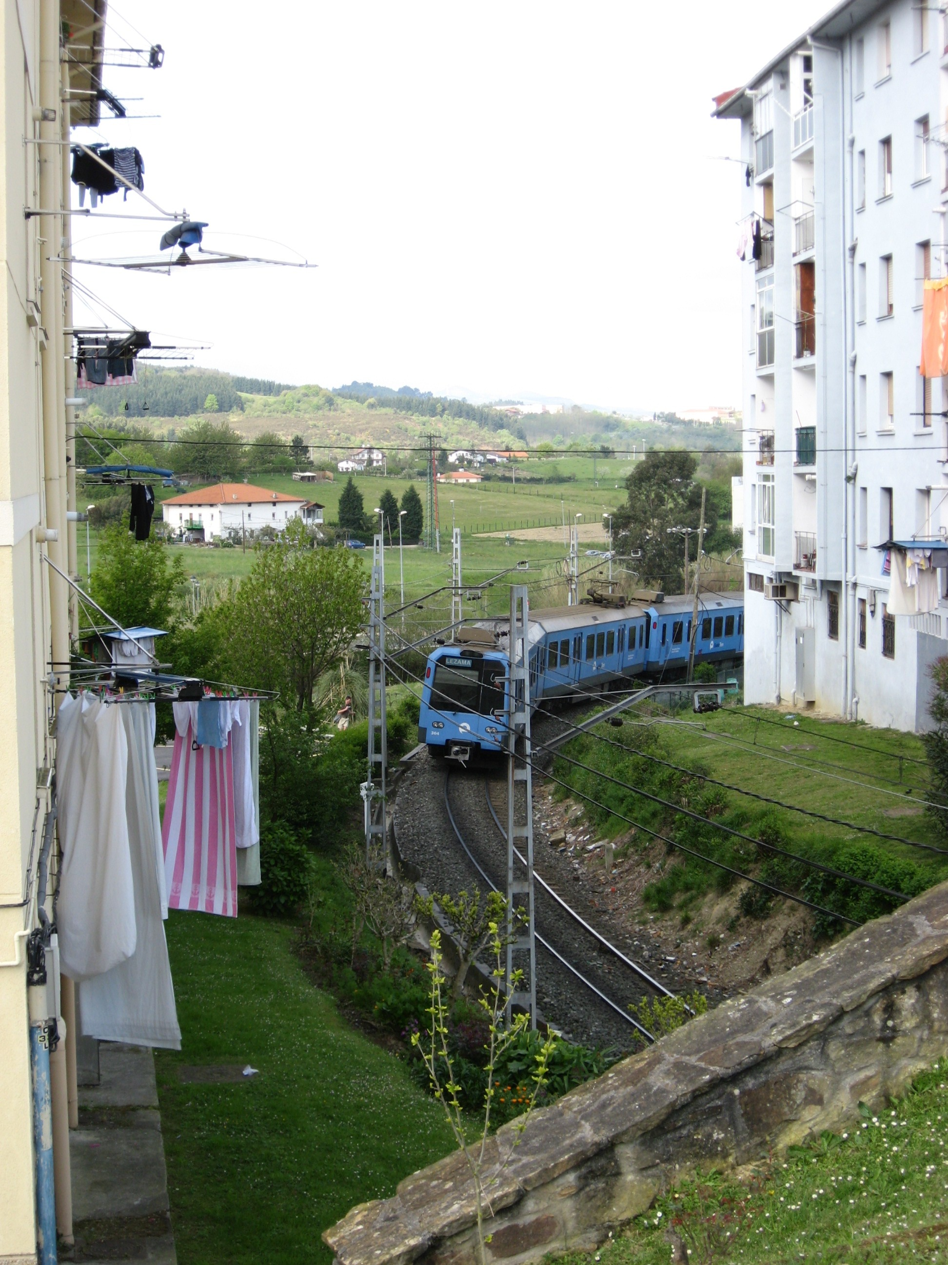 On the line Deusto Lezama, by station Zamudio